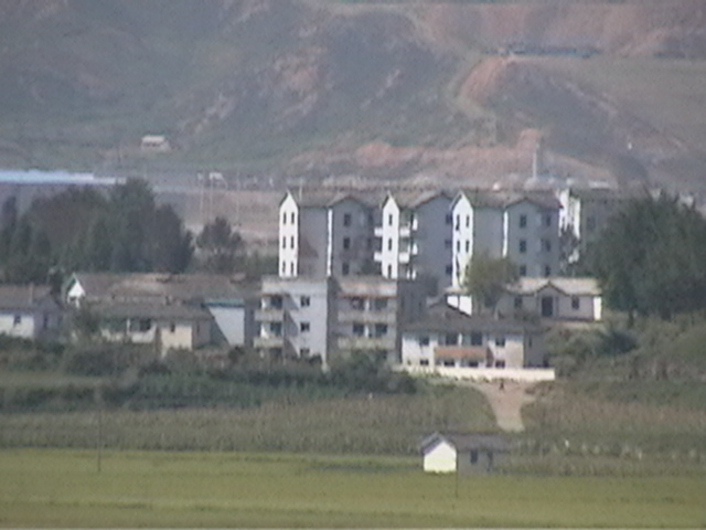 View on Kijong-dong village in the Demilitarized zone in Northern Korea